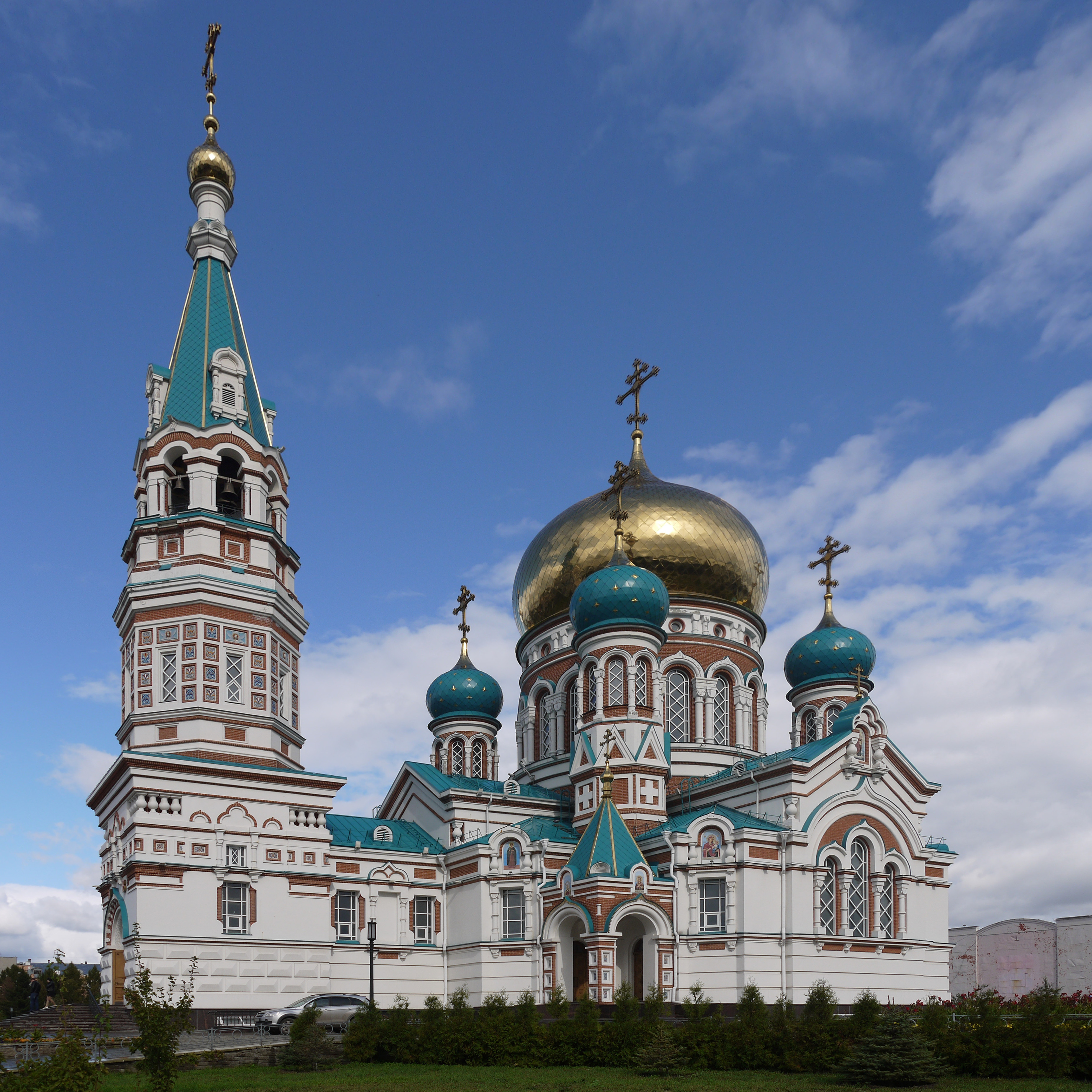 Assumption Cathedral.